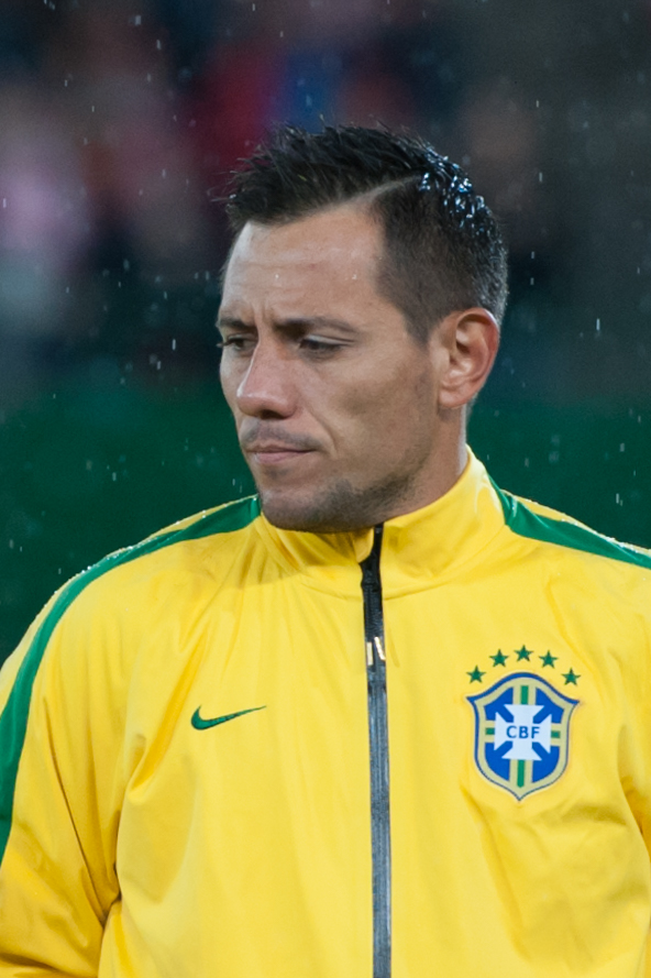 International Friendly Austria - Brazil November 18, 2014: Diego Alves